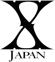 Logo of X Japan, introduced after the band changed its name from X in 1992.